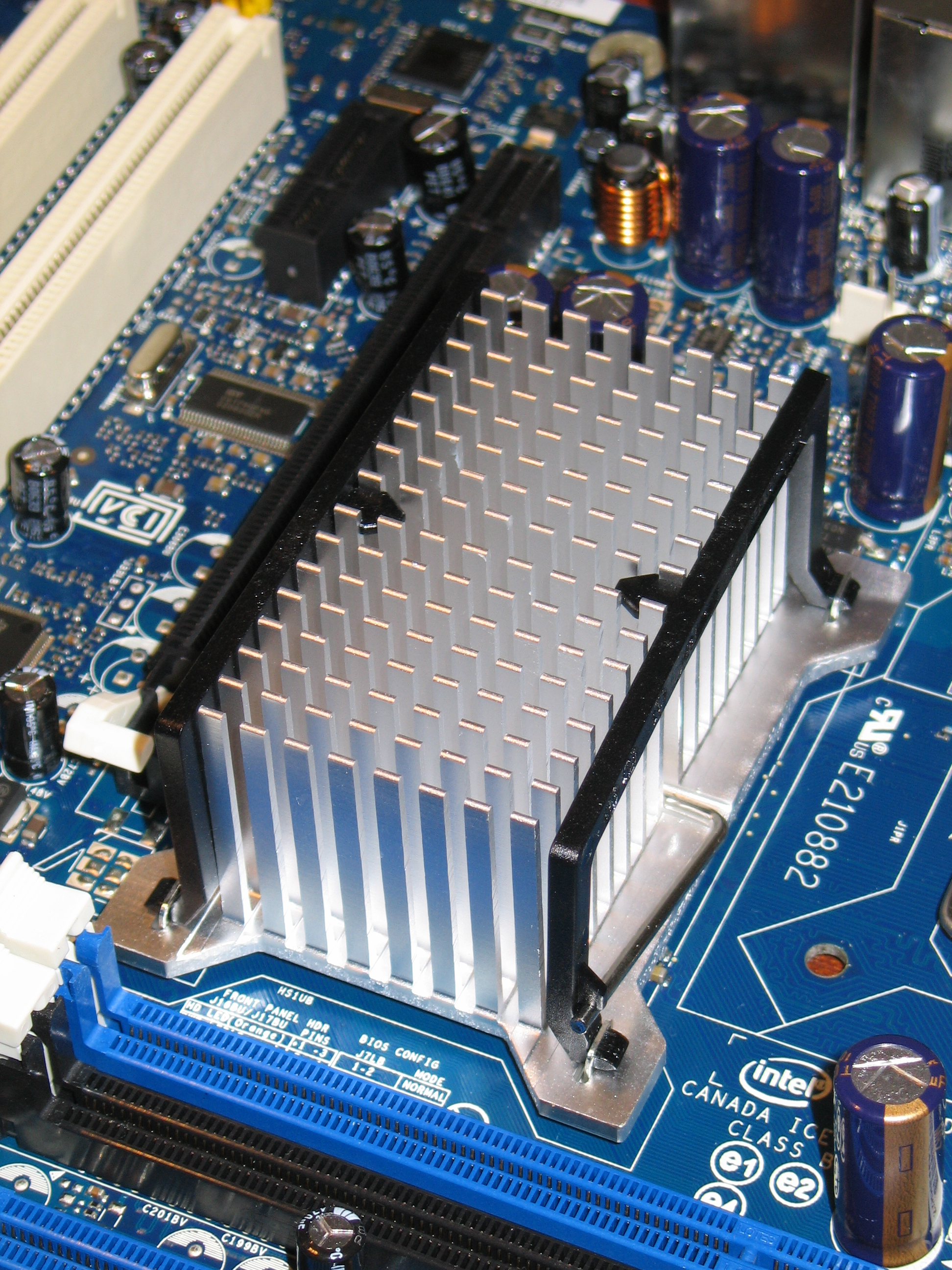 GMA X3000 chipset on Intel DG965WHMKR motherboard. Closeup of heatsink.